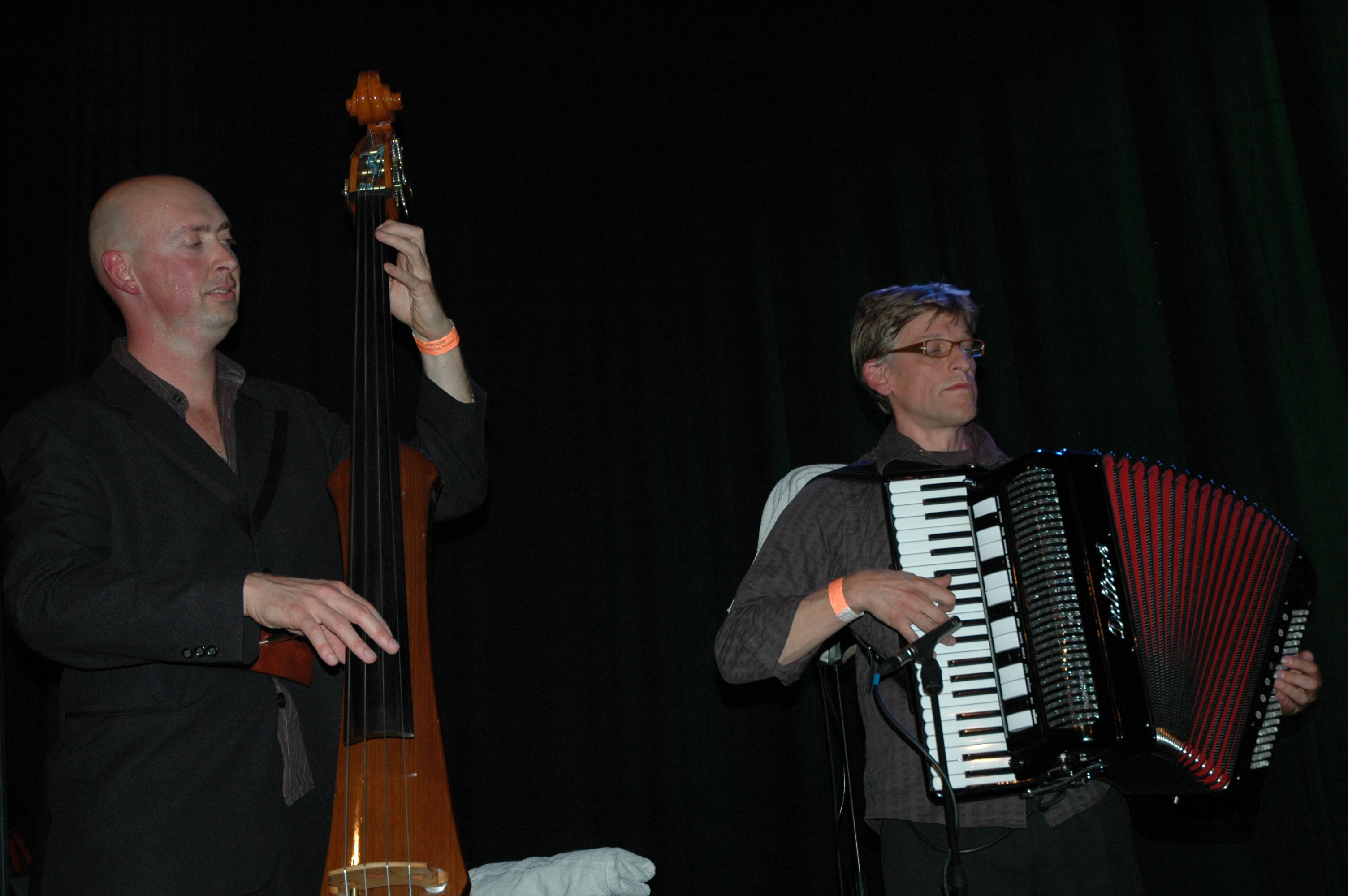 Amsterdam Klezmer Band double bassist Jasper de Beer and accordion player Theo van Tol at the Gloria Theater in Köln, Germany